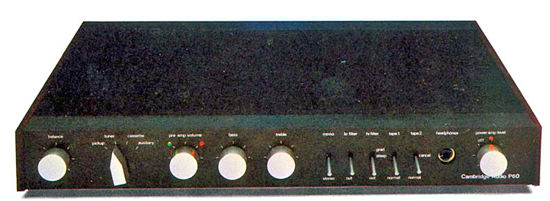 Cambridge audio p60 stereo integrated amp